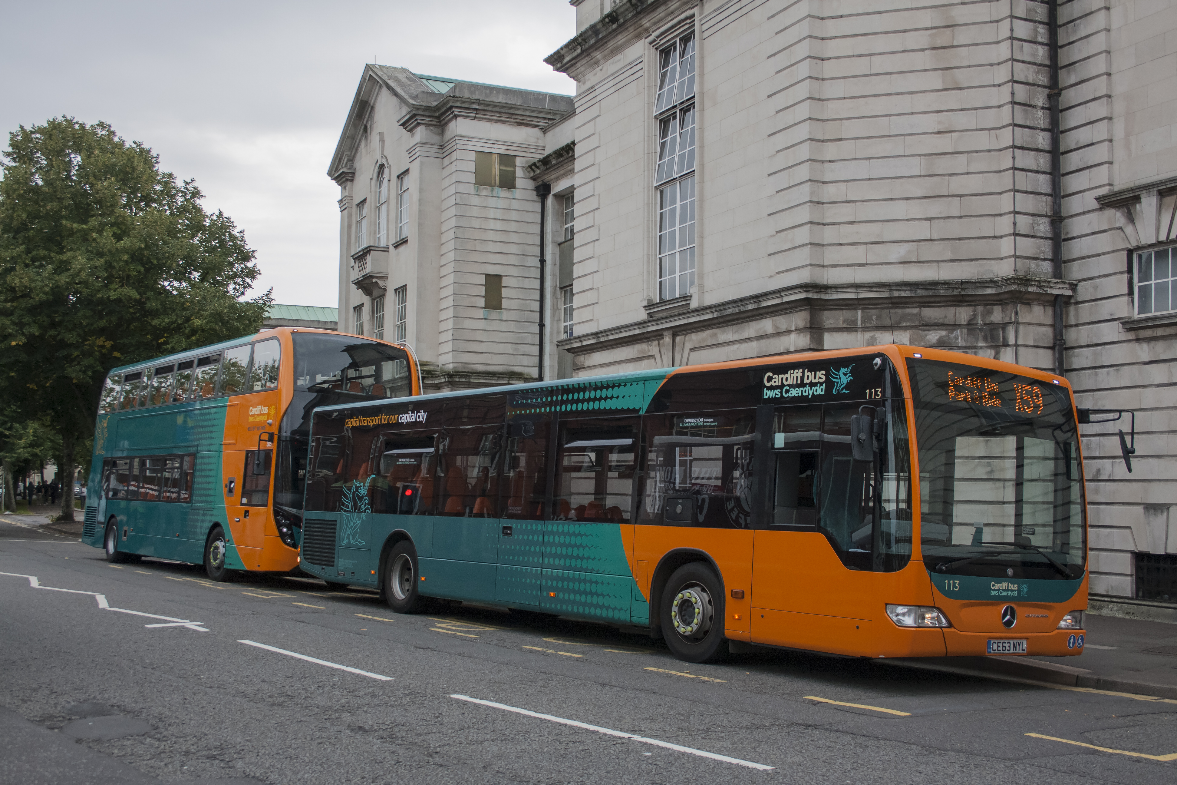 Cardiff Bus Mercedes-Benz Citaro CE63 NYL is seen working an X59 Park and Ride service, which on this day was being diverted to Cardiff University to transport visitors to the University's open day. Double deck Enviro 400 CN65 AAO (brand new at the time) is seen behind the Mercedes, with the two vehicles in their Cardiff Bus livery looking clean and smart.